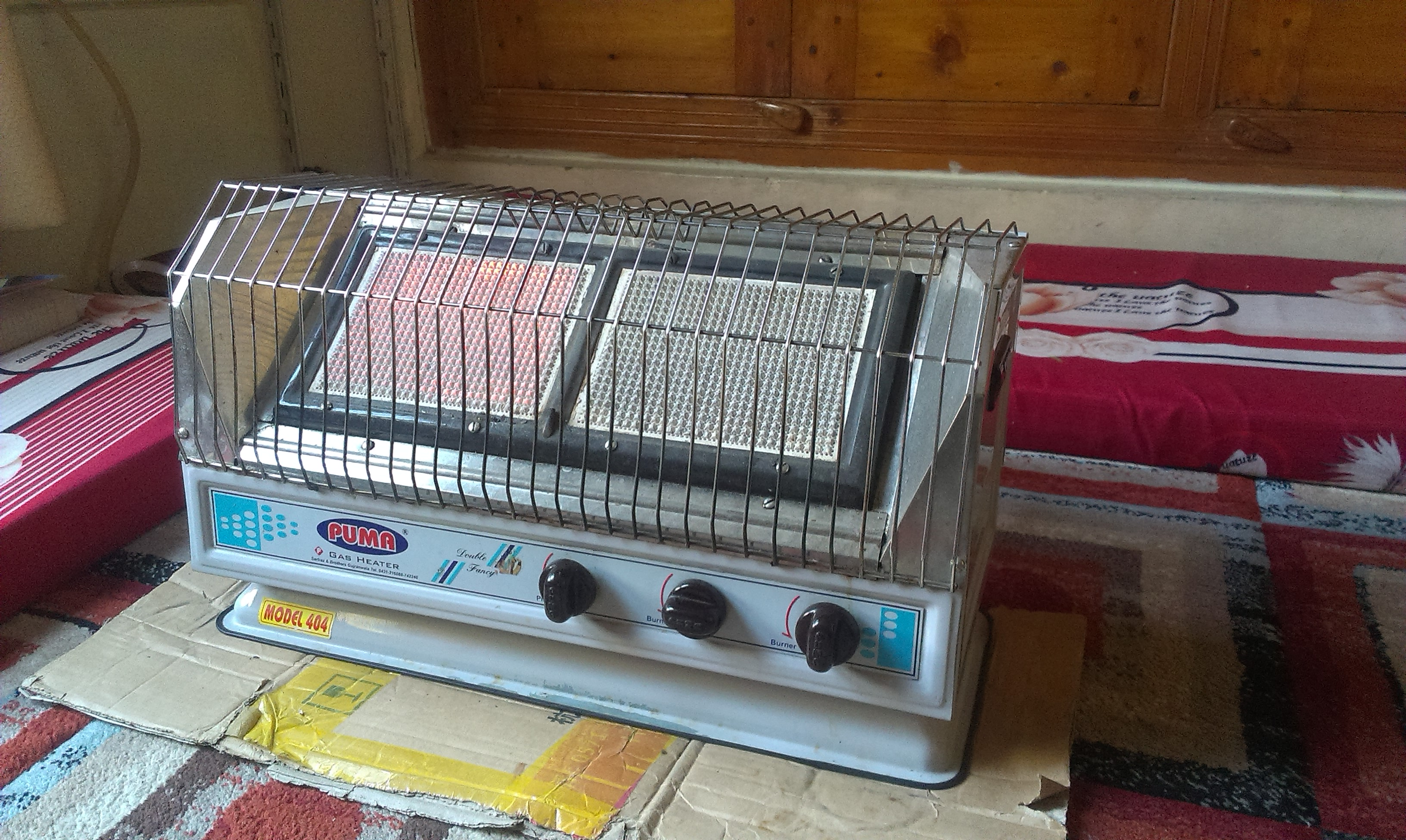 A picture of PUMA Gas Heater running on Natural Gas.